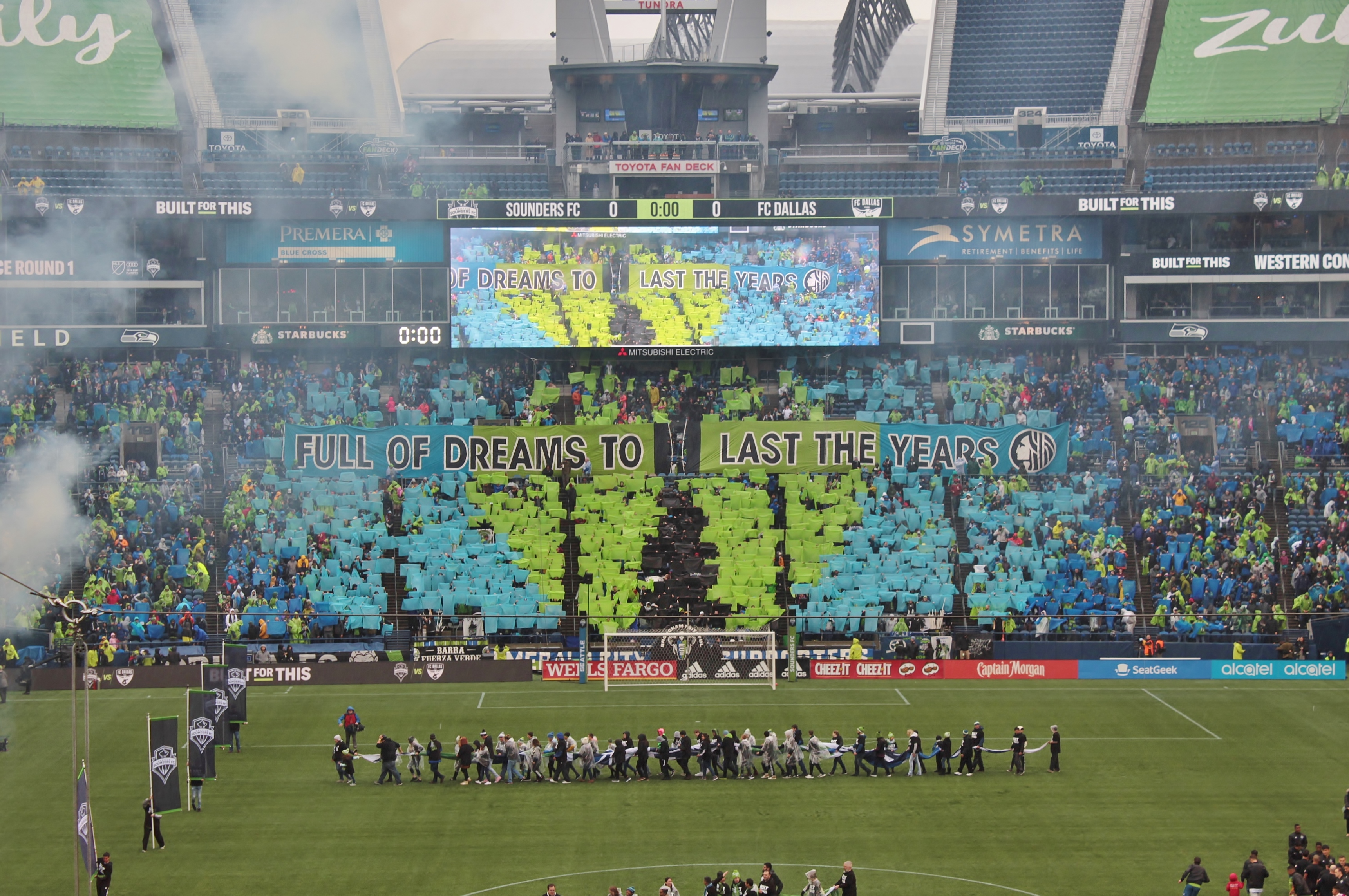 A tifo display by the Emerald City Supporters at CenturyLink Field ahead of a MLS playoffs match between the Seattle Sounders FC and FC Dallas. The tagline reads "Full of Dreams to Last the Years", a lyric from the song "Seattle, which is sung by supporters before every match.